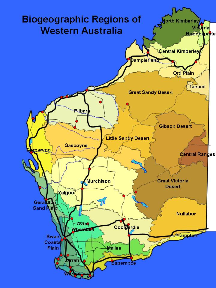 Created the map myself using Powerpoint drawing tools